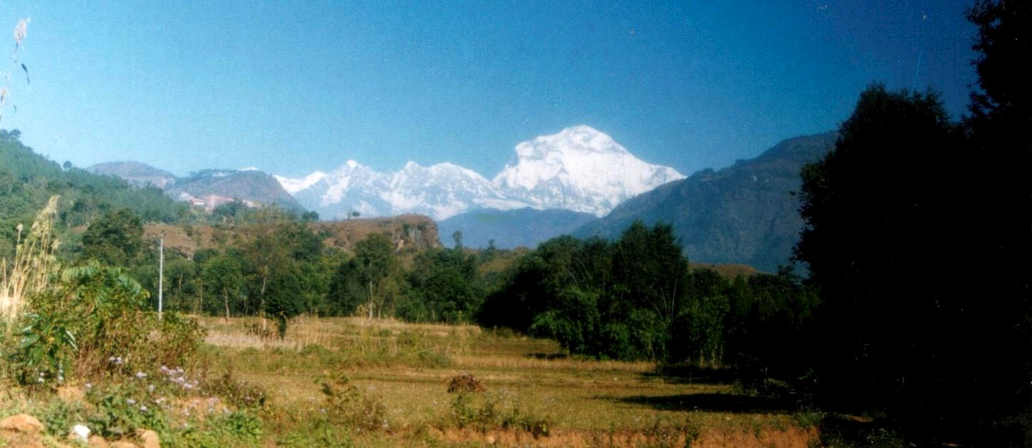 Sudip, 2001.